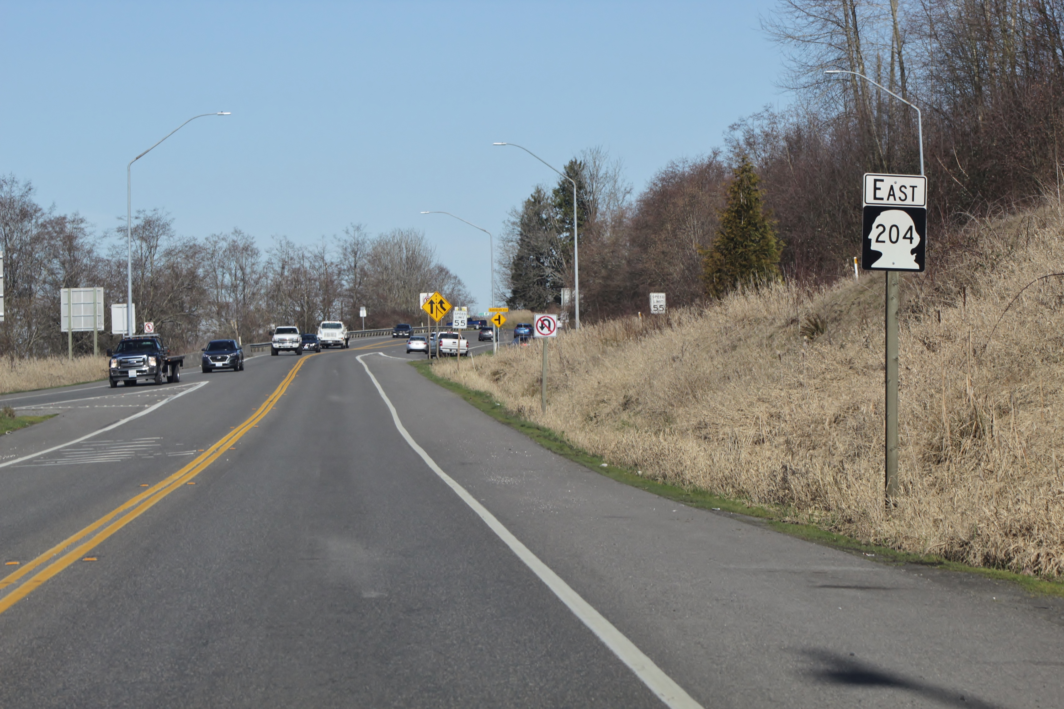 Looking eastbound on State Route 204 from just beyond its western terminus at U.S. Route 2.